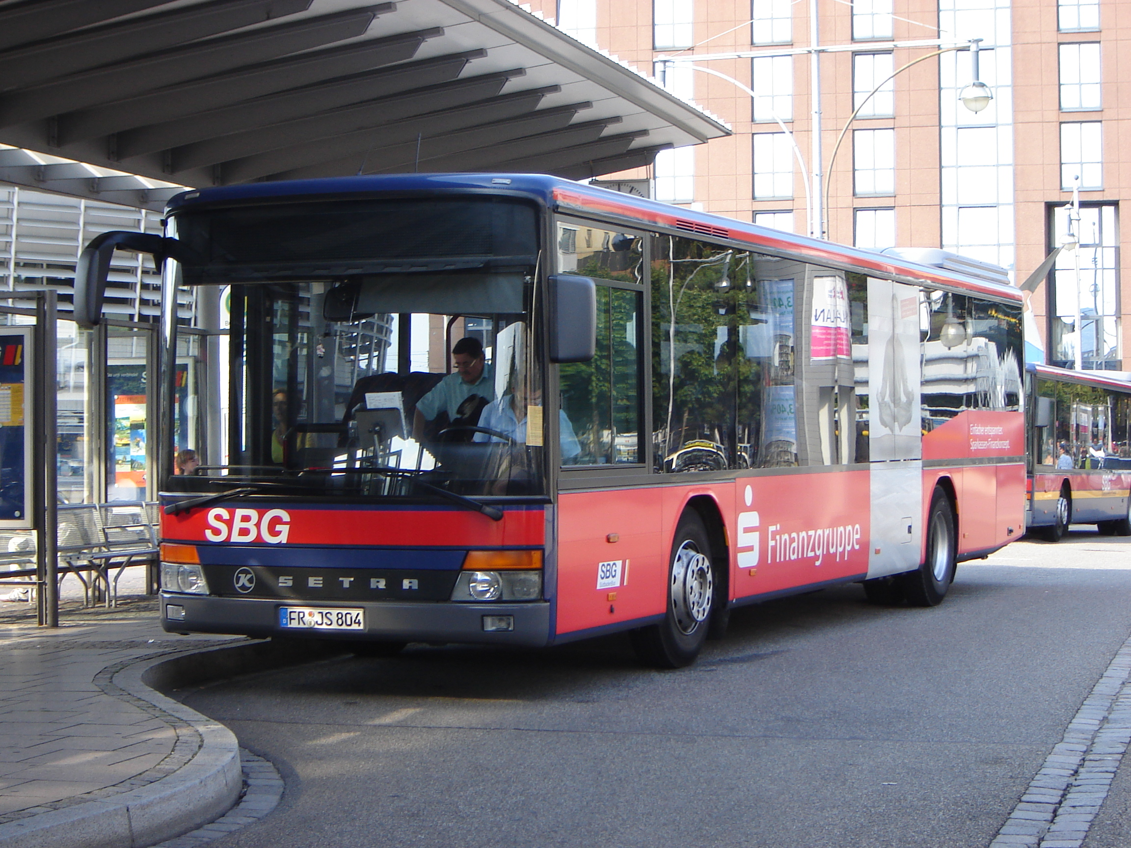 A Setra S315 NF in front of the Freibug main station